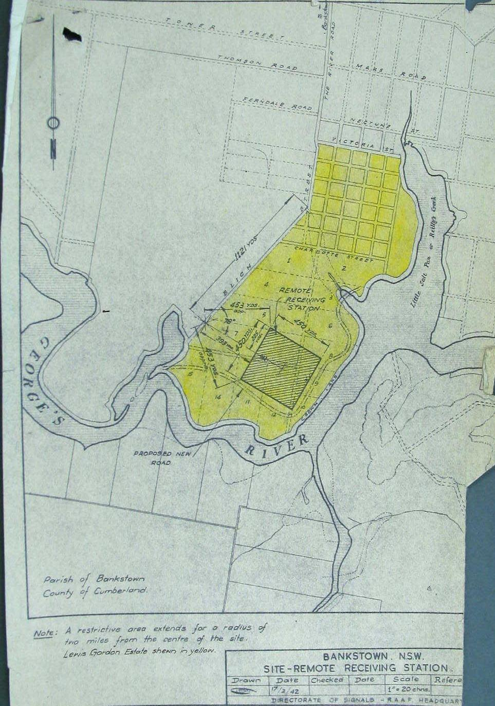 Hand drawn map of Bankstown